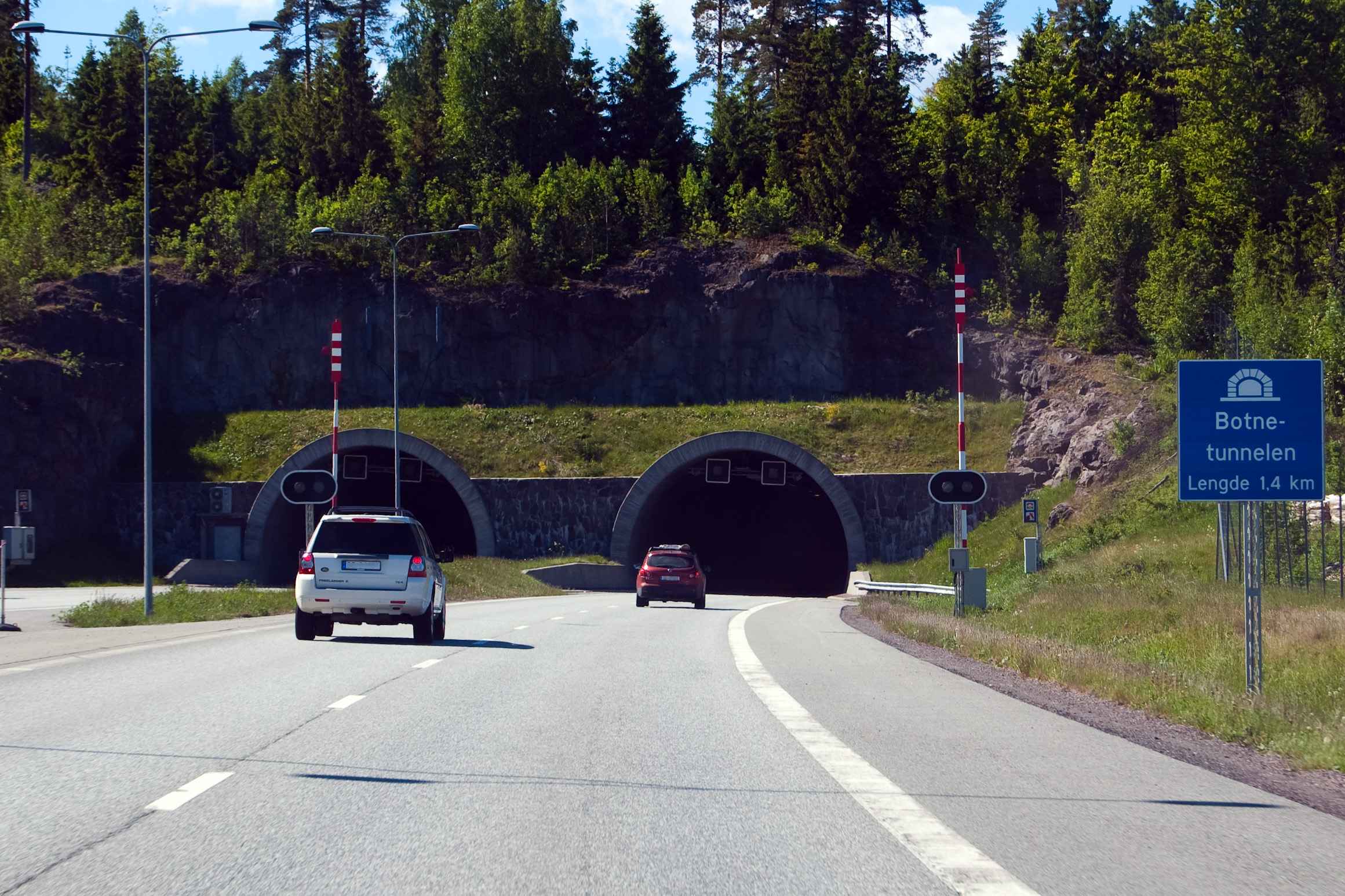 The Botne tunnel seen from the south, on E18 in Vestfold, Norway.